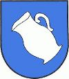 Coat of arms of Krieglach, Styria